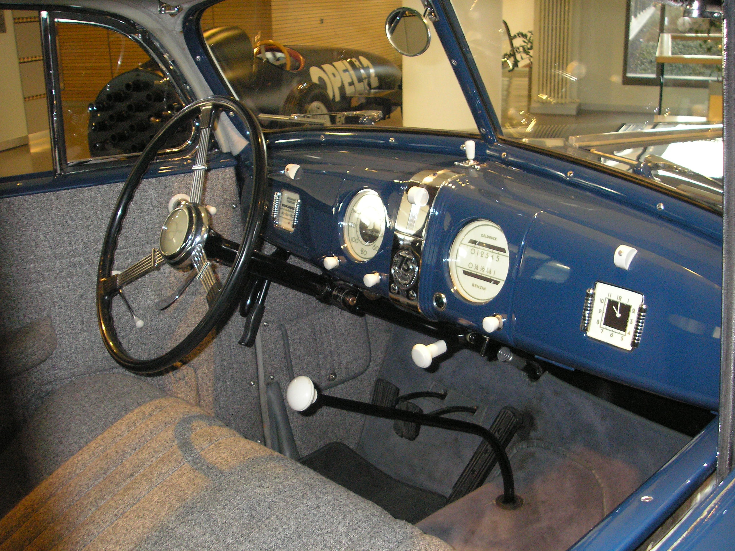 Description: Innenansicht vom Opel Admiral, im Opel in Berlin Zentrum an der Friedrichstraße. Baujahr 1938. Interior of the Opel Admiral, image taken at the Opel Centre at Friedrichstraße in Berlin. Model built in 1938. Source: self-made, I release it into the public domain. Gryffindor 17:27, 9 March 2006 (UTC)